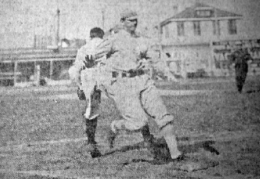 Shoeless Joe Jackson of the New Orleans Pelicans headed for first base. Pelican Park, New Orleans, 1910.